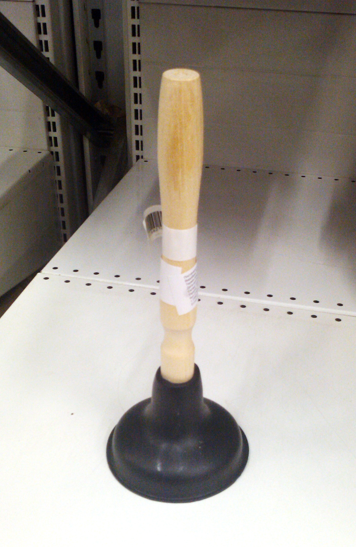 Plunger